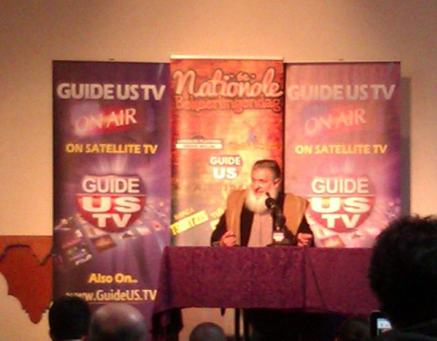 Yusuf Estes during the Dutch convertday (Bekeerlingendag) 2013